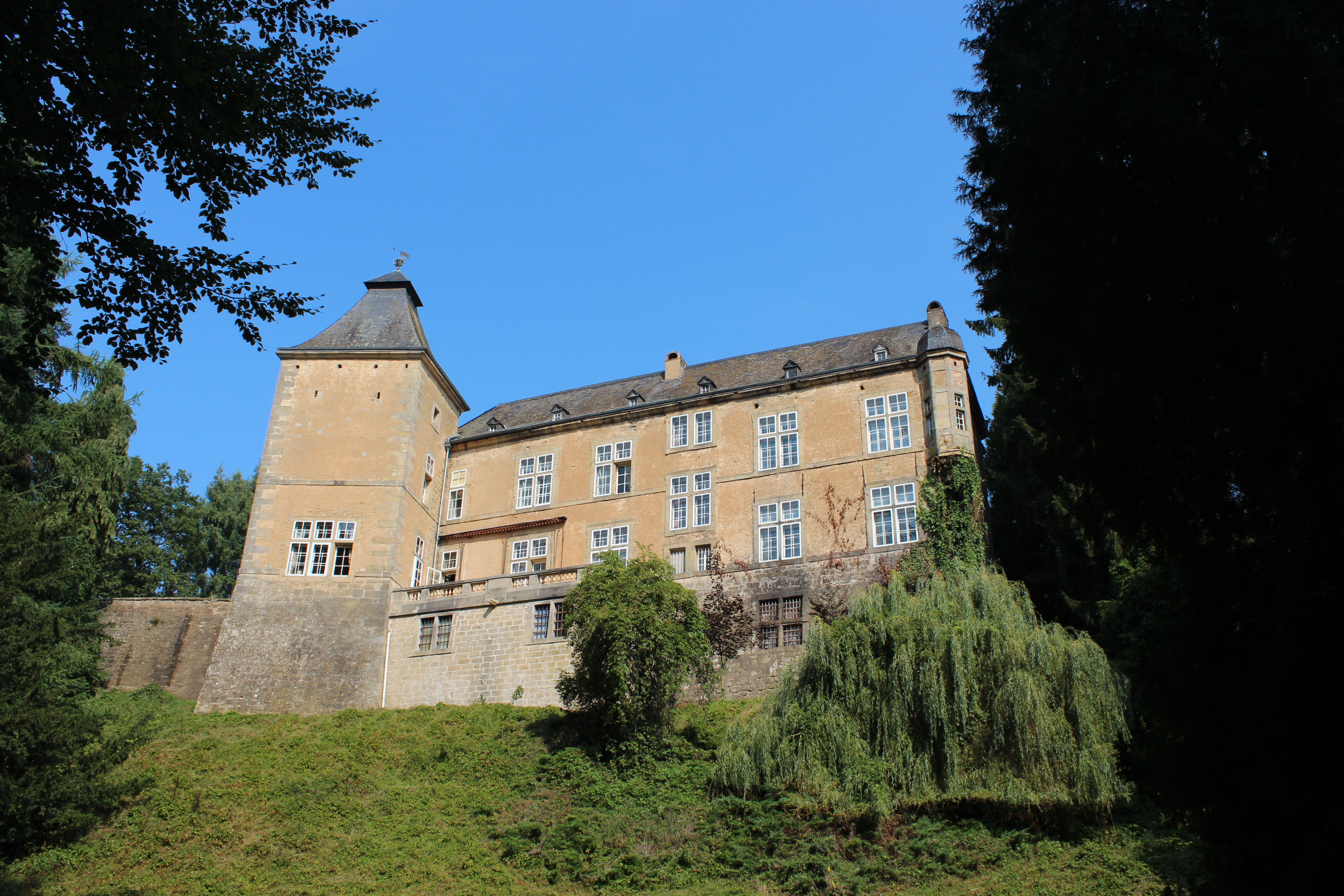 Renaissance castle in Beaufort, Luxembourg, built in the 1640ies for Governor Jean de Beck.